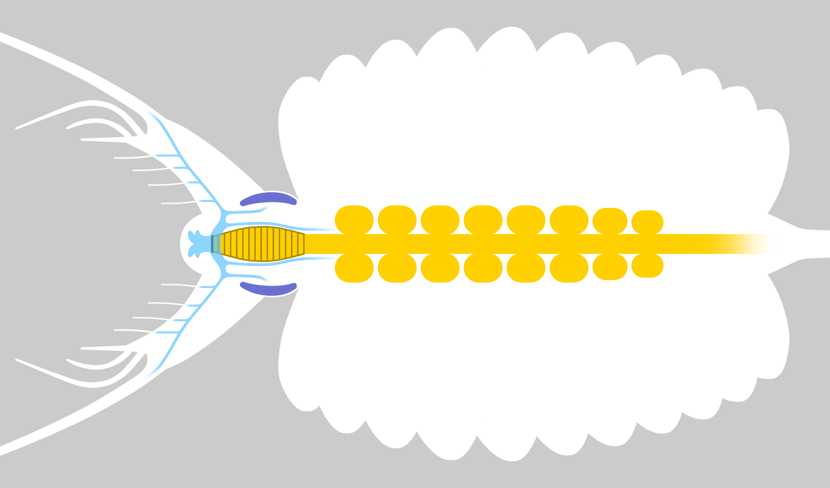 Eyes (deep blue), brain (light blue) and digestive system (yellow) of Kerygmachela kierkegaardi, showing arrangement of cerebral neurons and digestive glands. Fade-out sections indicating unreveal regions.